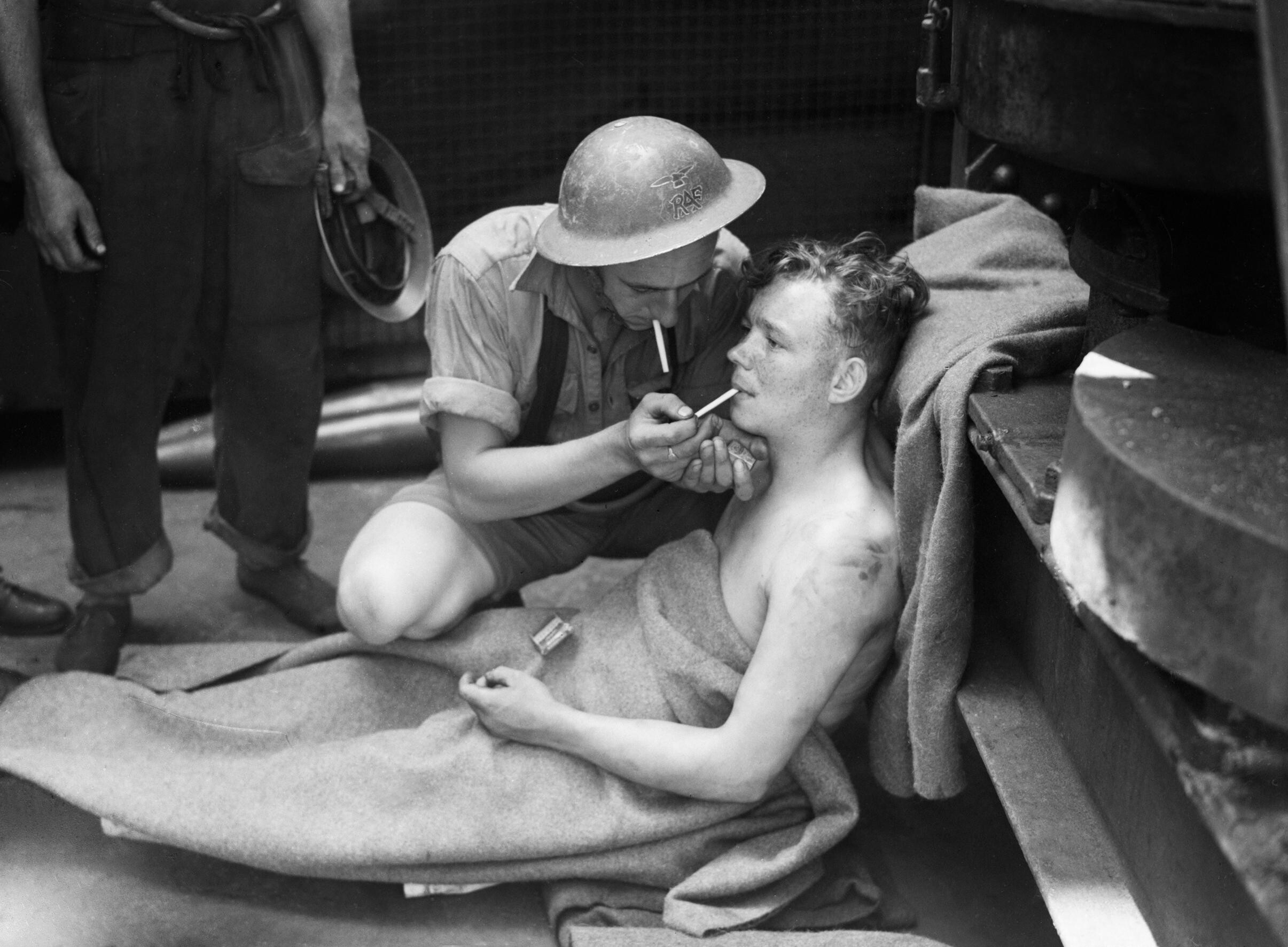 To the Rescue on Board HMS Manchester. July 1941, on Board the Cruiser After She Had Been Torpedoed While on Convoy Duty in the Mediterranean. A cigarette is given to one of the wounded men, who had been working in a shell room when the torpedo hit the MANCHESTER.